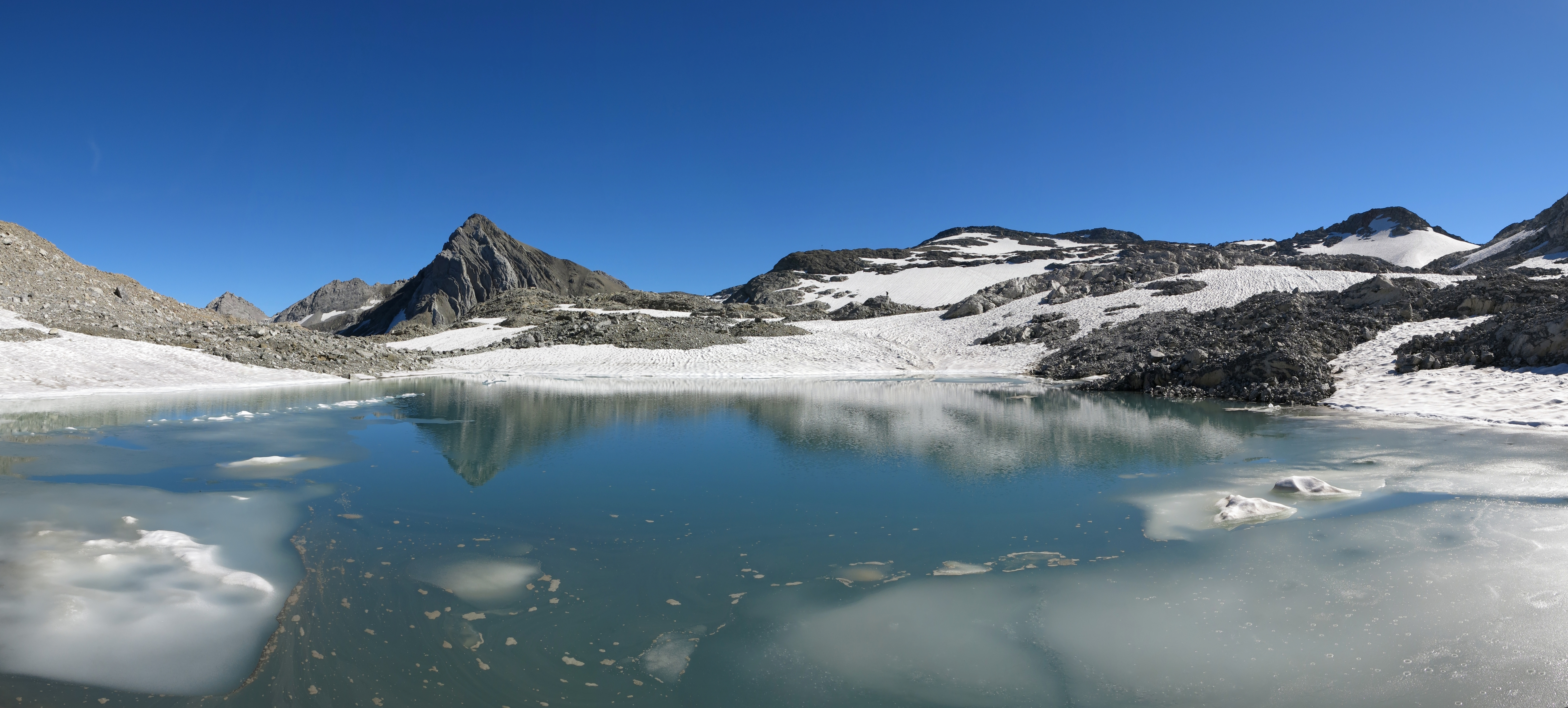 Glacial lake near the Brandner Glacier and the Schesaplana